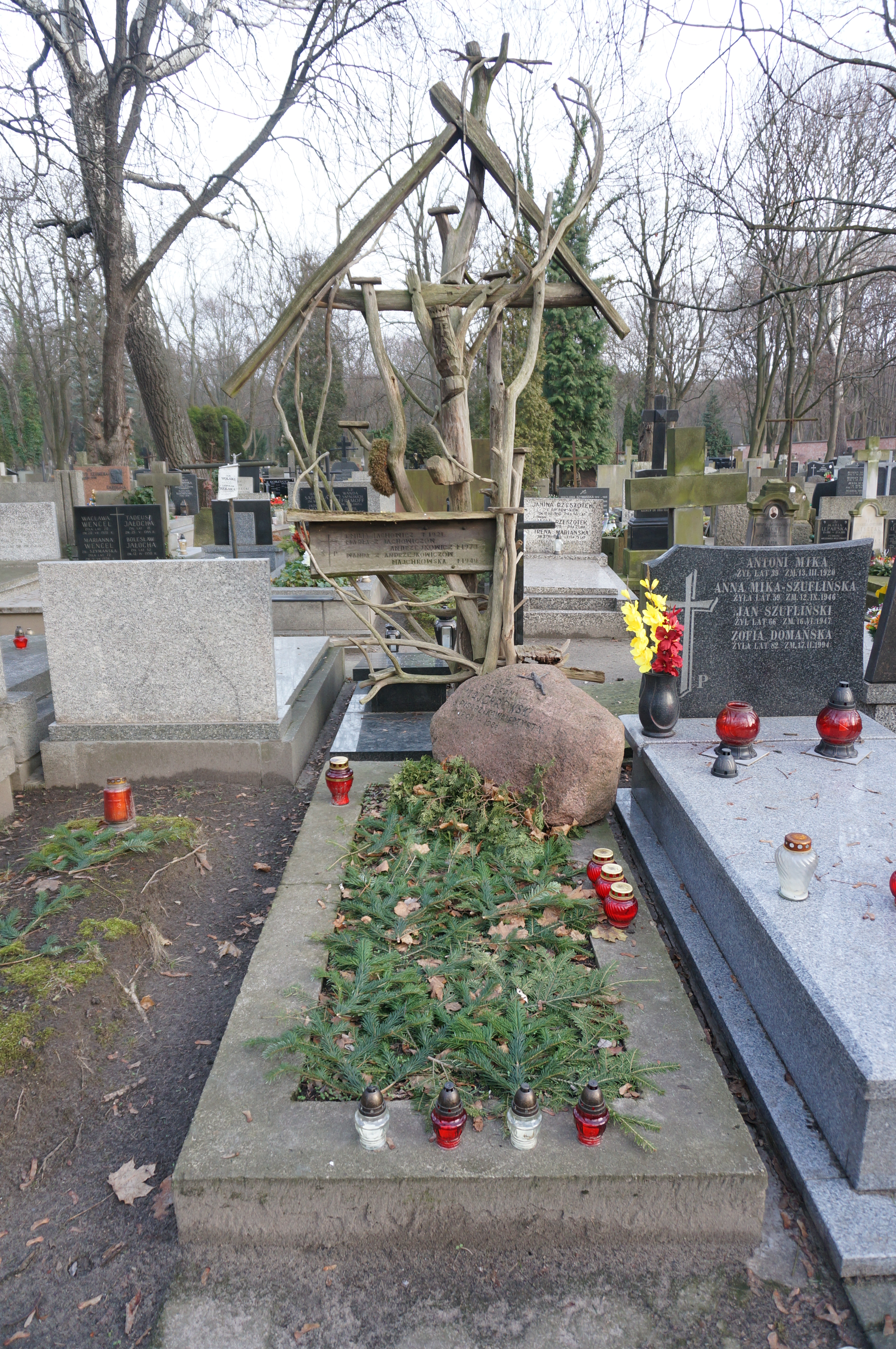 The grave of Stefan Majchrowski at the Powązki Cemetery (section 327, row 6, grave 15)